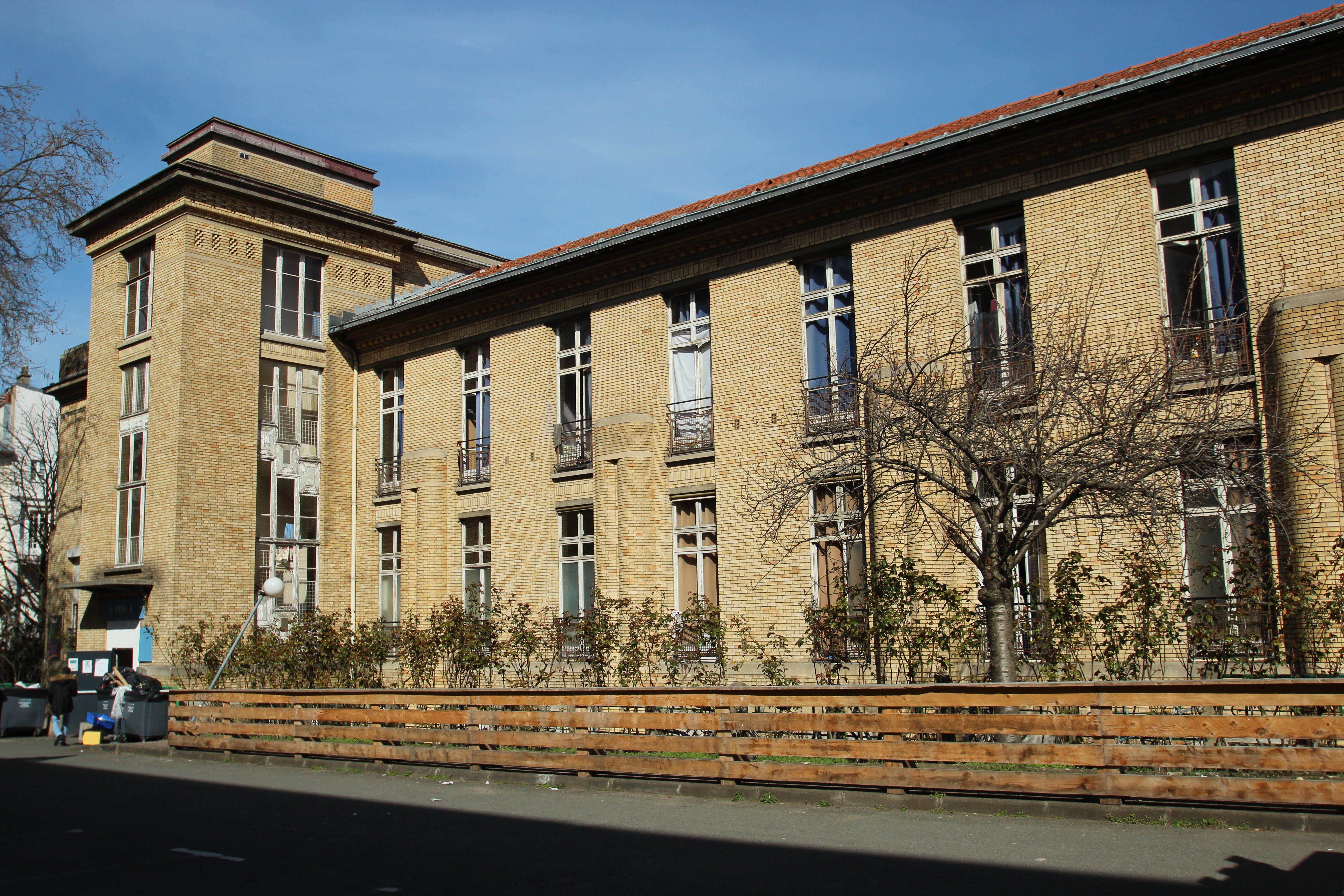 Saint-Vincent-de-Paul former hospital in Paris, France. Object location48° 50′ 16.08″ N, 2° 20′ 00.92″ E